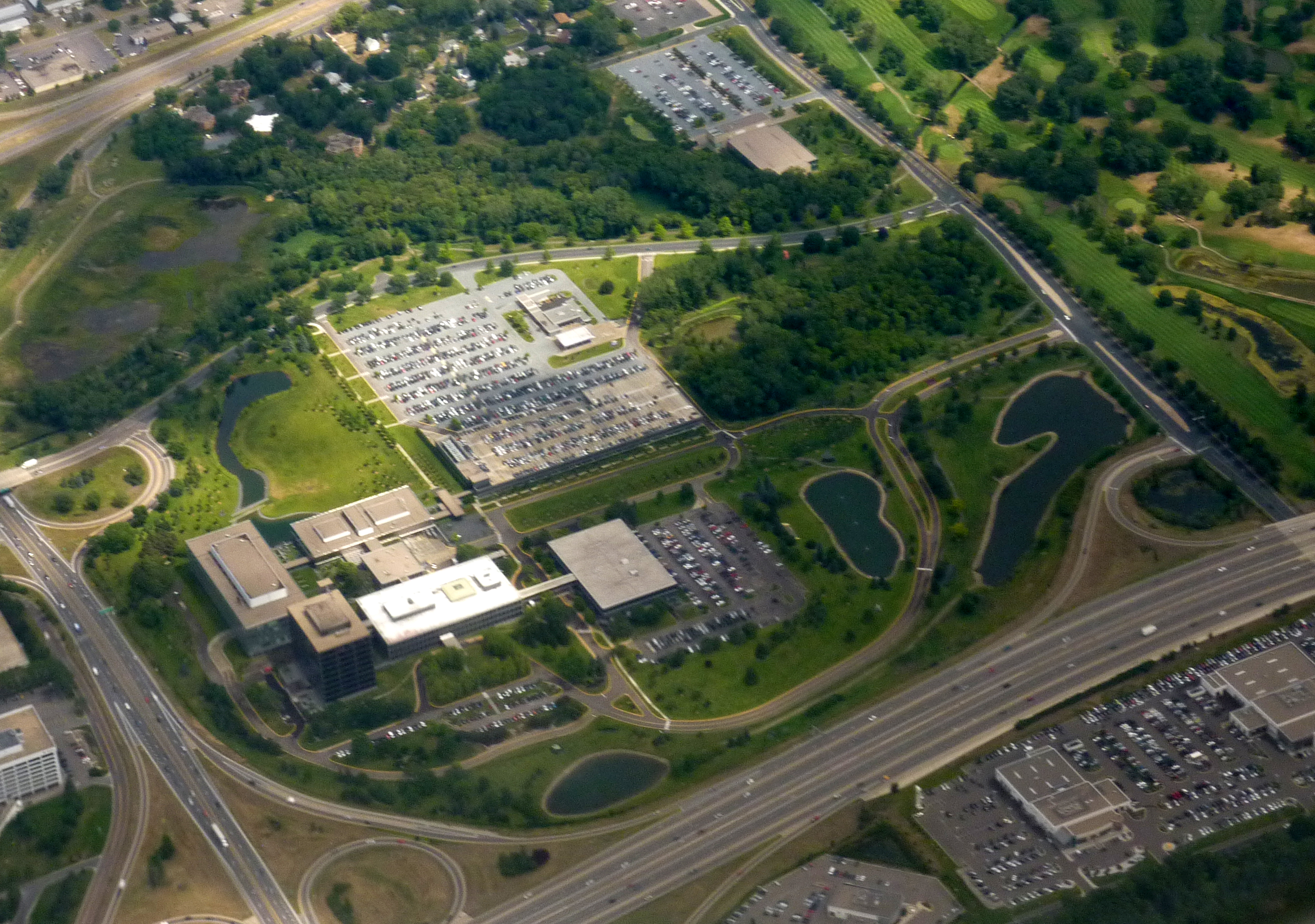 Aerial photo of the General Mills corporate headquarters campus, Golden Valley, Minnesota, USA.